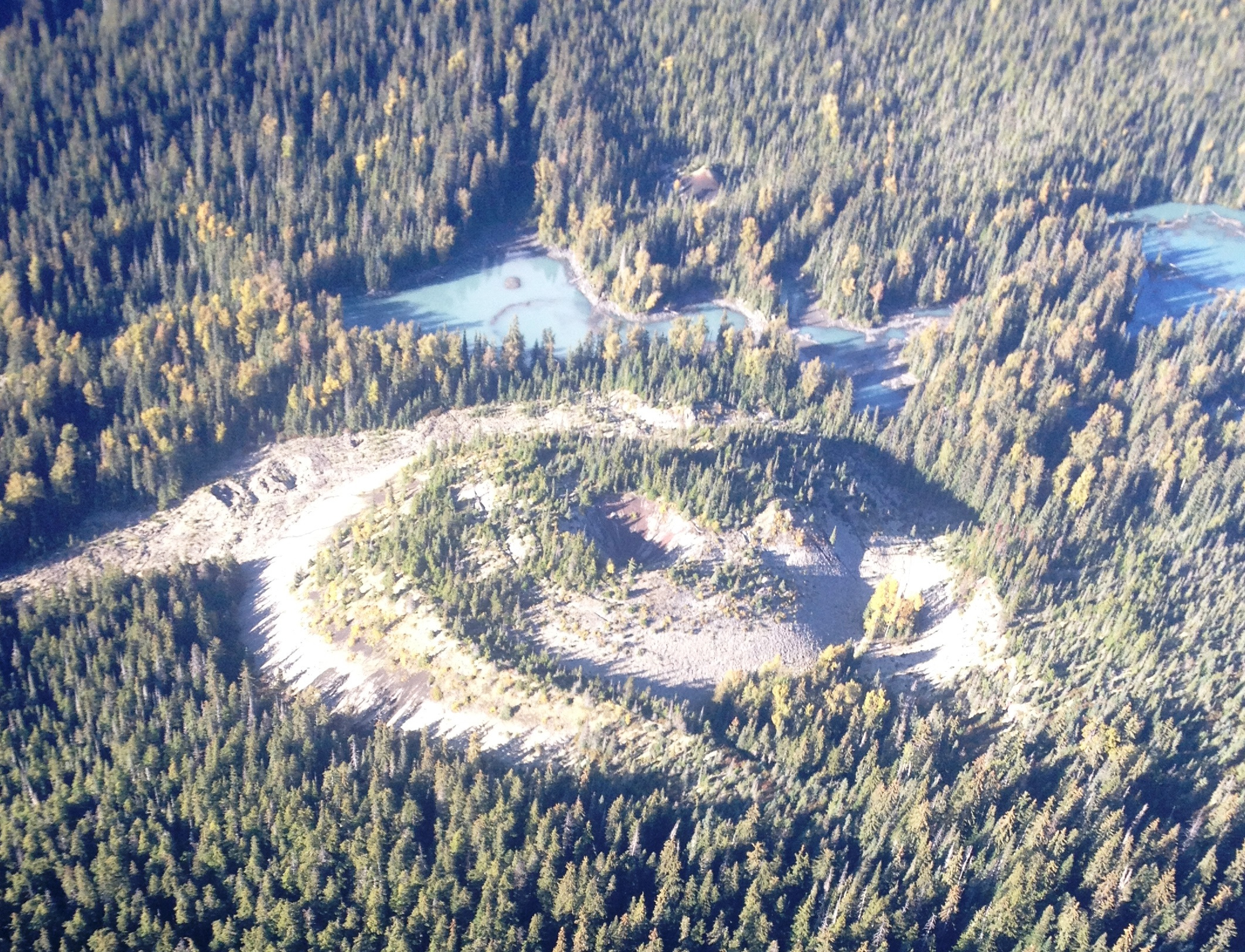 Tseax volcanic vent in September 2013